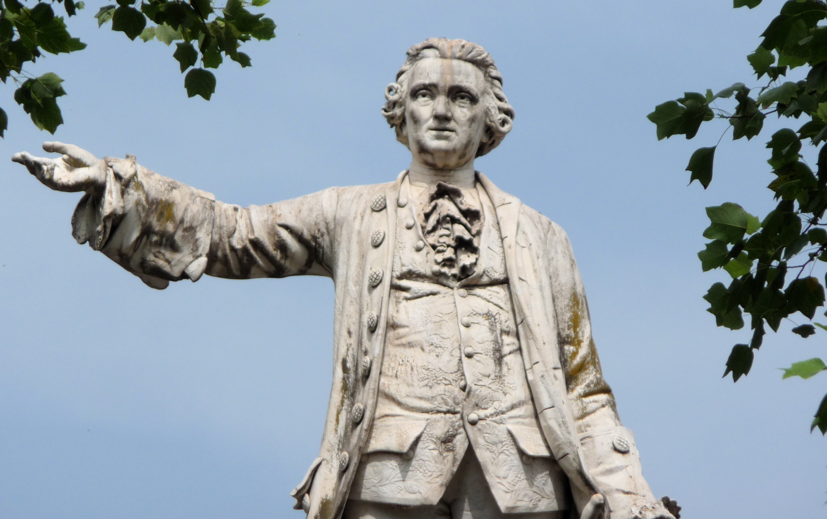 Monument to Luigi Vanvitelli, piazza Vanvitelli in Caserta.